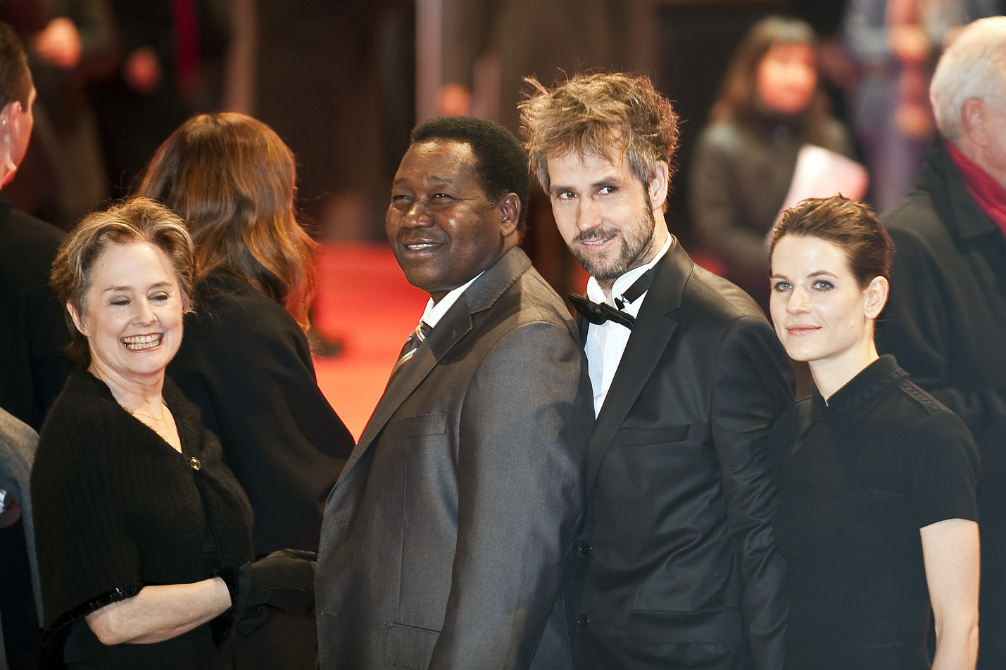 Alice Waters (one of the best-known and most influential American chefs); Gaston Kaboré (Burkinabé film director and an important figure in Burkina Faso's film industry); Christoph Schlingensief (German film and theatre director, actor and author); arrival for the opening of the 59th Berlin International Film Festival